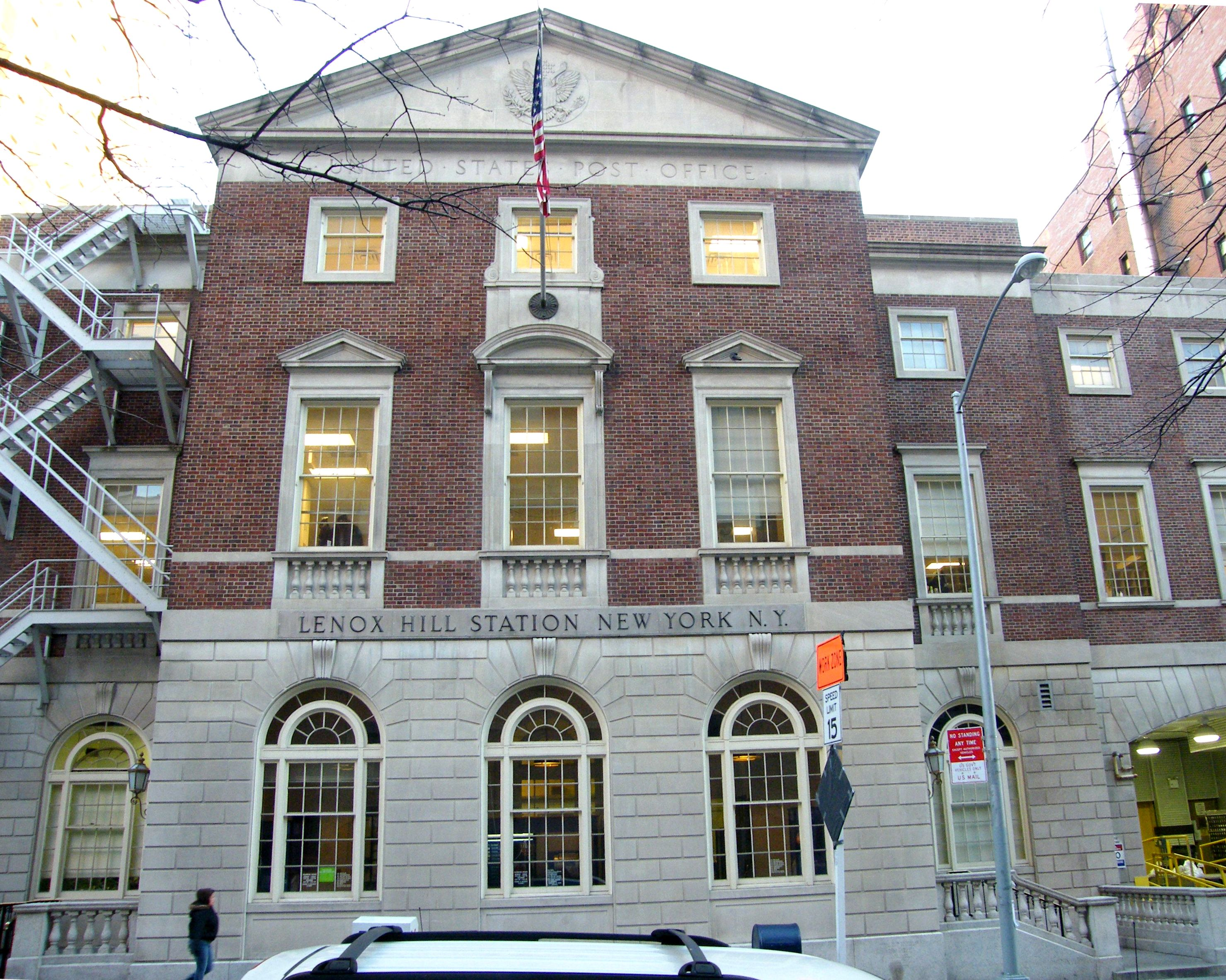 Looking north across E70th St at Lenox Hill Post Office on National Register Of Historic Places in New York City